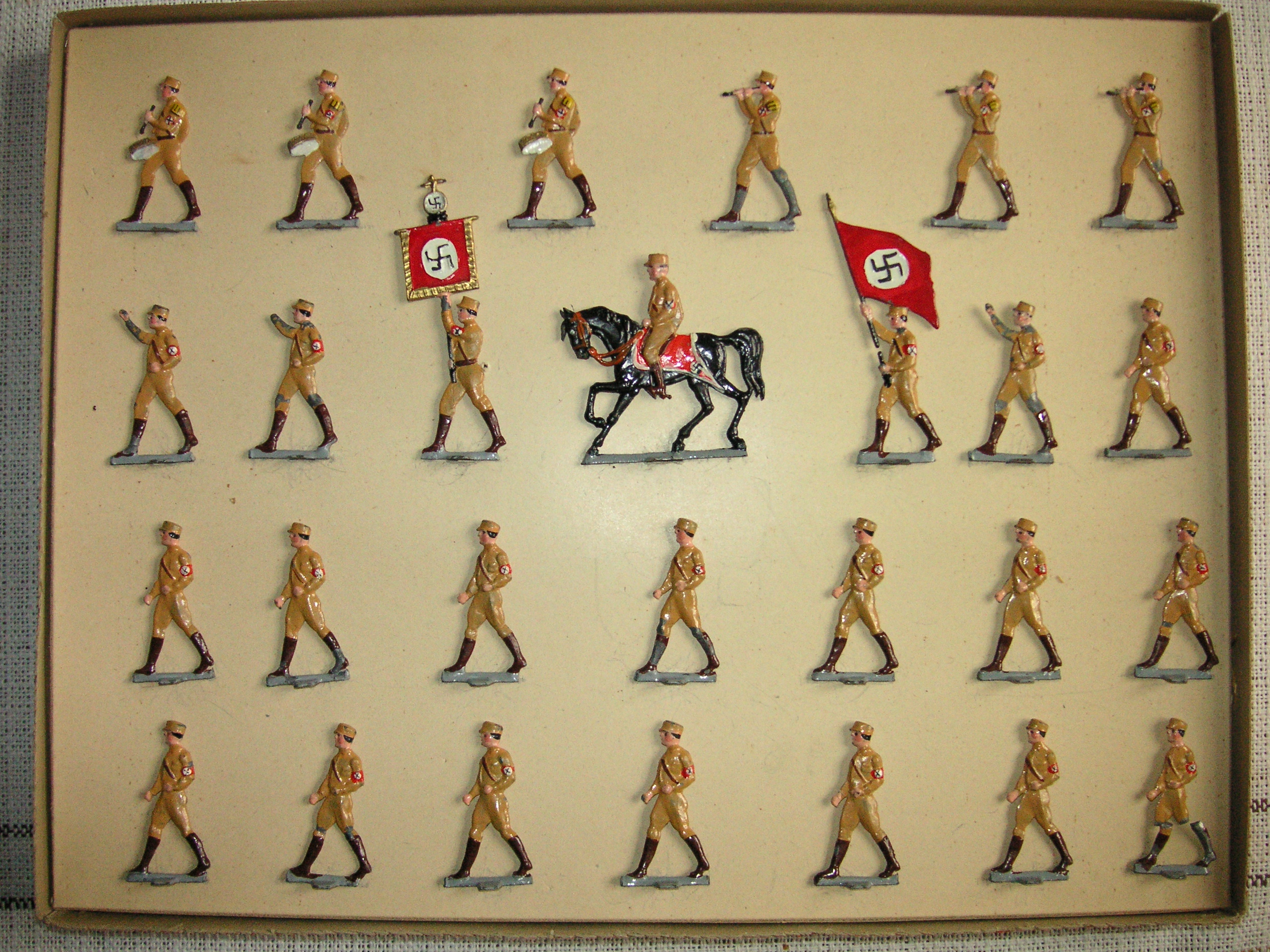 A rare set of tin soldiers depicting Nazi S.A. troops. Demi-round, hand painted lead figures made during, or just before WWII. Most likely the manufacurer is Georg Spenkuch, Germany. Photo 2005 by J-E Nyström, User:Janke. I hereby place the photo in the Public Domain. The box is marked with "Hitler S.A. Leute", and a "G.S." trademark.